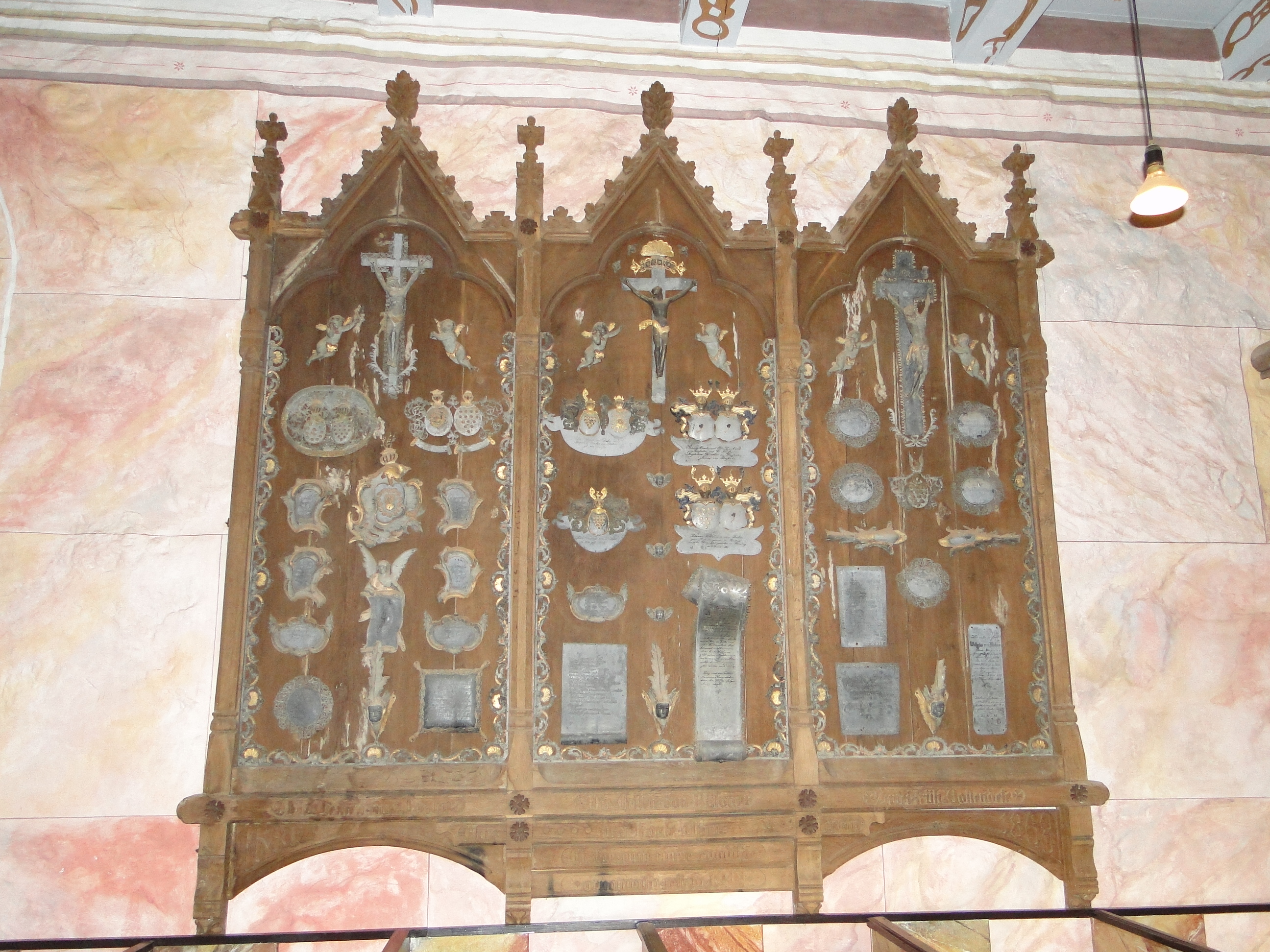 Church in Wamckow, district Ludwigslust-Parchim, Mecklenburg-Vorpommern, Germany Board with coats of arms